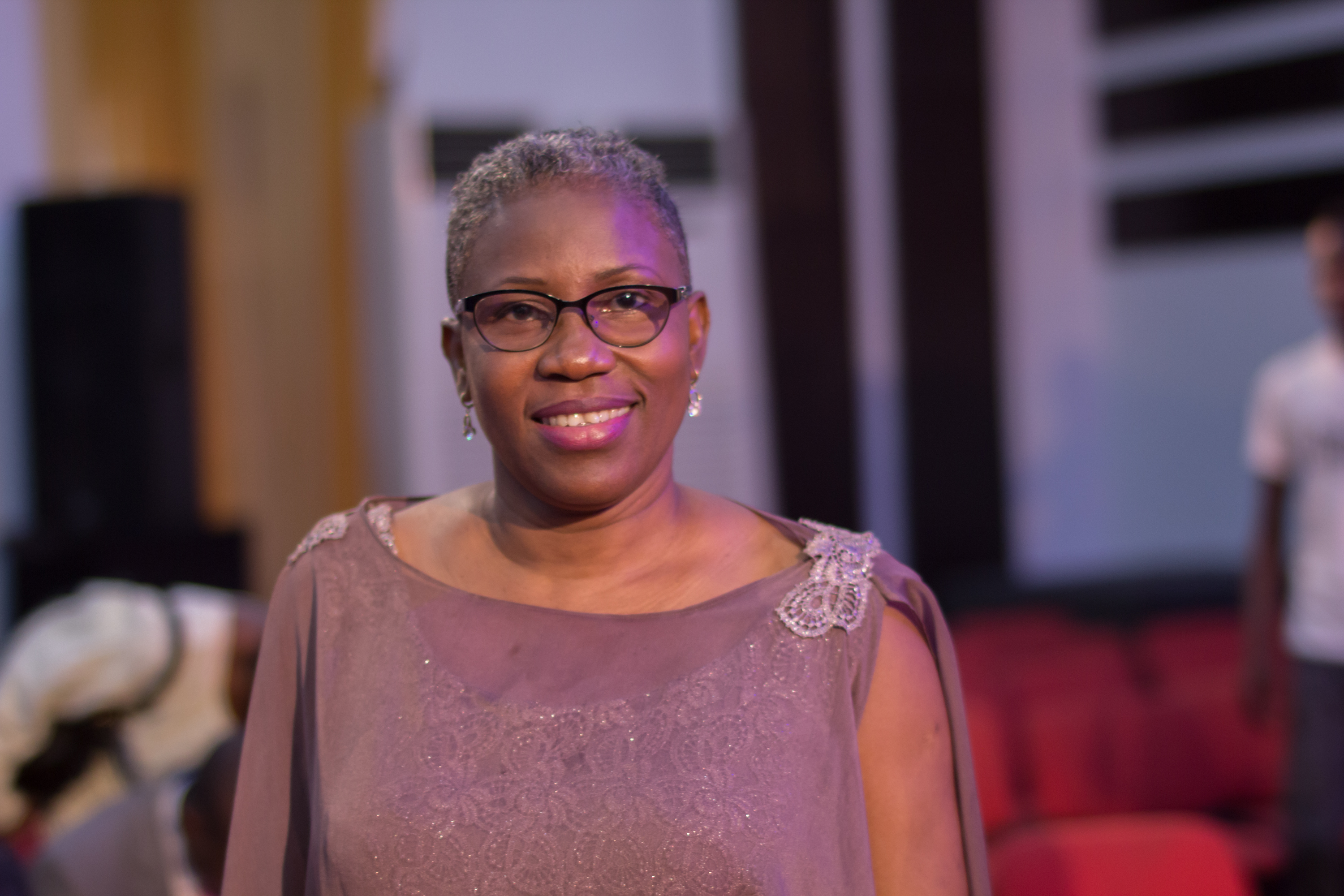 Image of Dr. Princess Olukayode